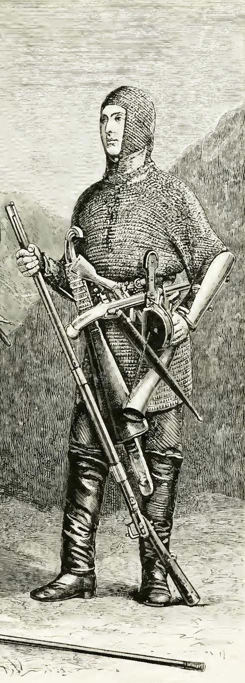 Warrior of Goori and warrior of Lesghia.